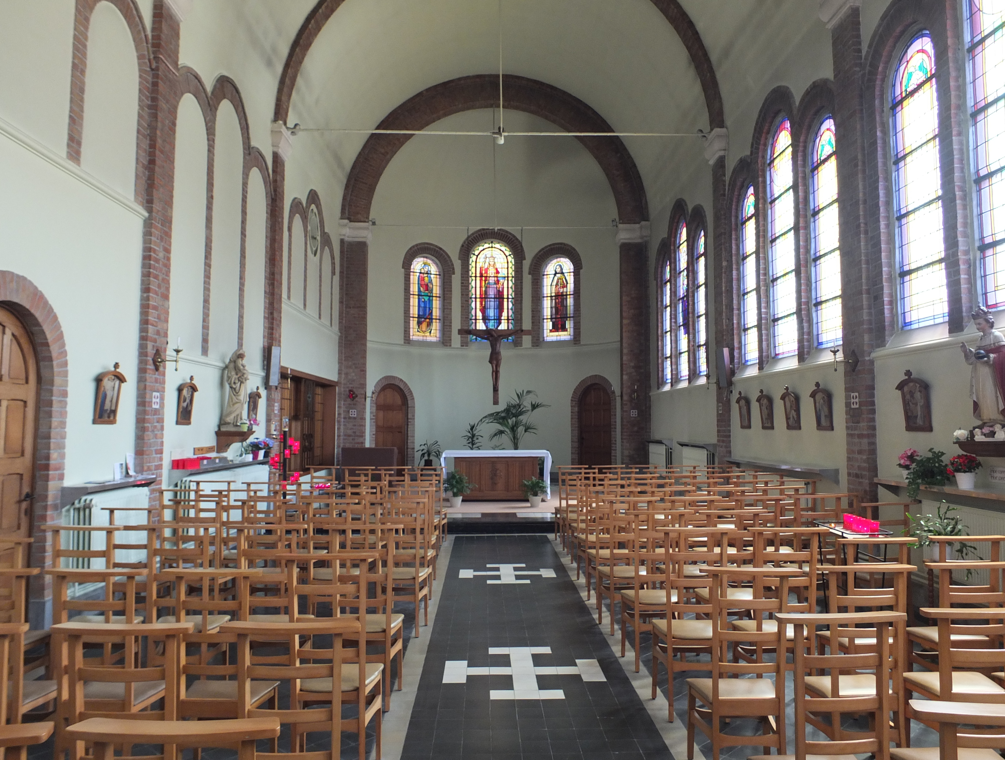 Interior of the church of the convent of the Sisters of Carmel in Blankenberge, Belgium.